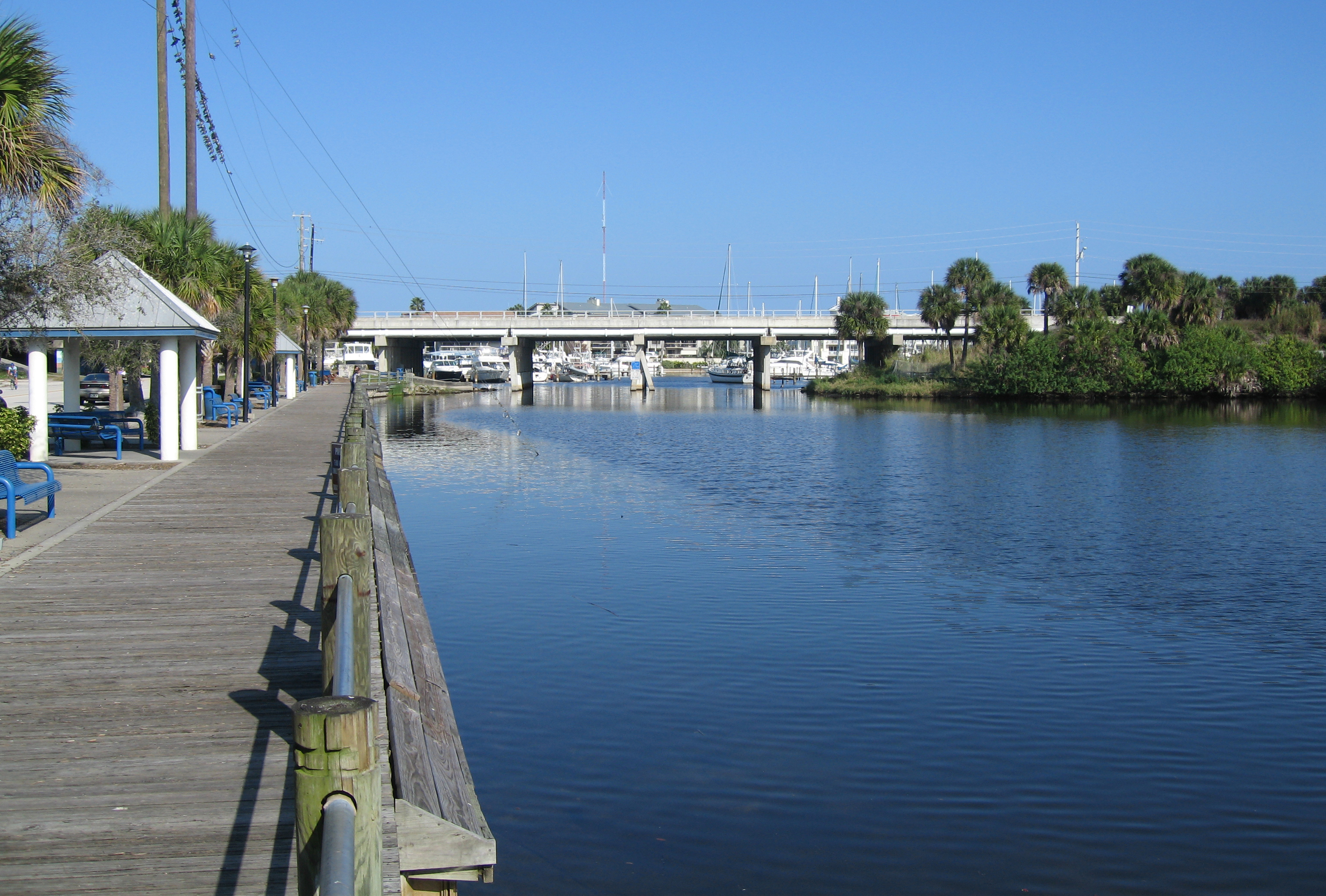 Crane Creek with the wooden boardwalk of the Crane Creek Promenade to the left. U.S. 1 bridge in the distance. Picture taken at the south end of Depot Drive, in Melbourne, Florida, United States.